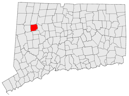 Locator map for Bantam, Connecticut